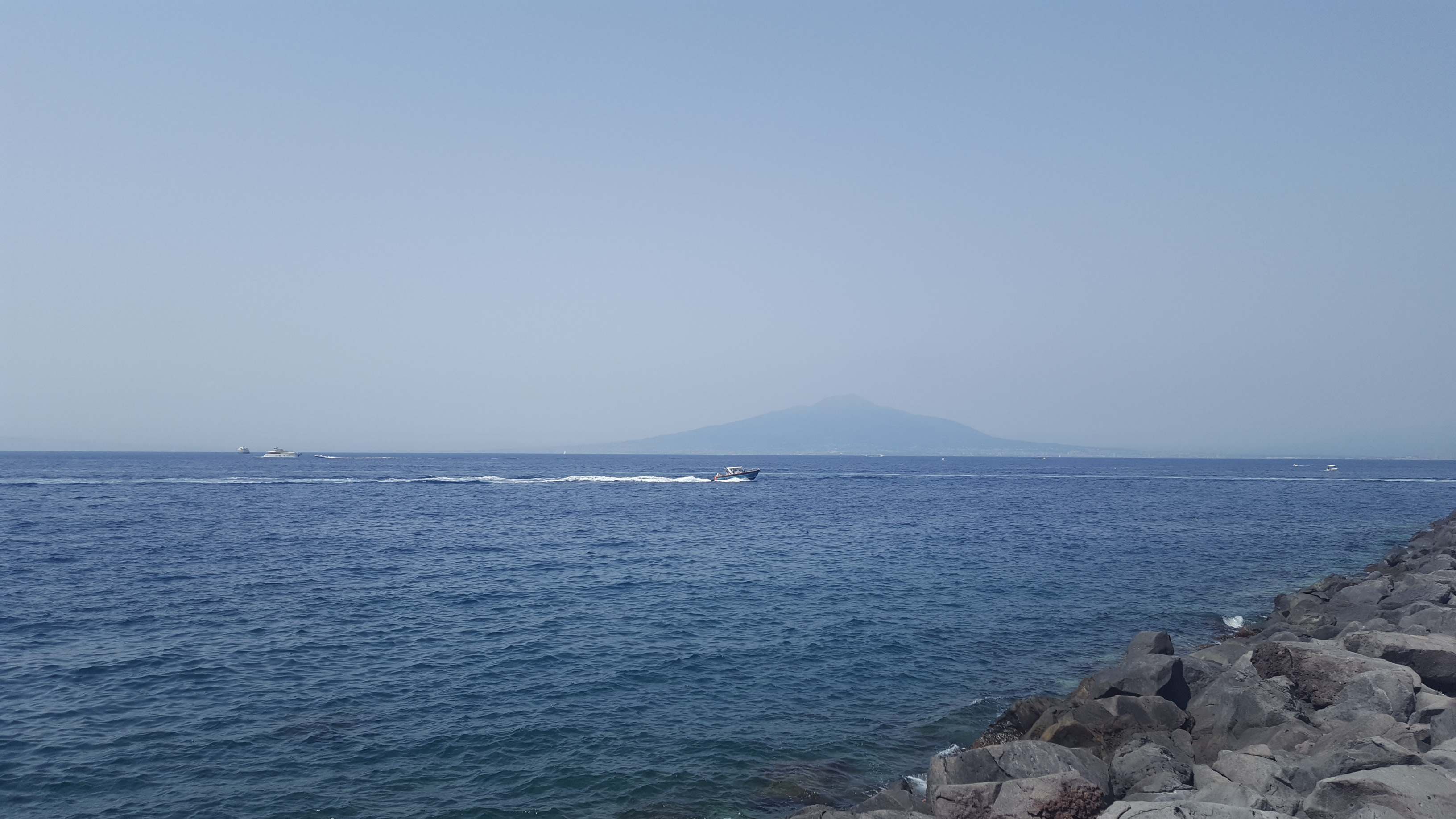 Daytime image of the bay of Sorrento (in the afternoon)